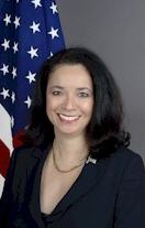 Carmen M. Martinez, U.S. Ambassador to Zambia (2005-2008). From: United States Embassy in Lusaka portrait